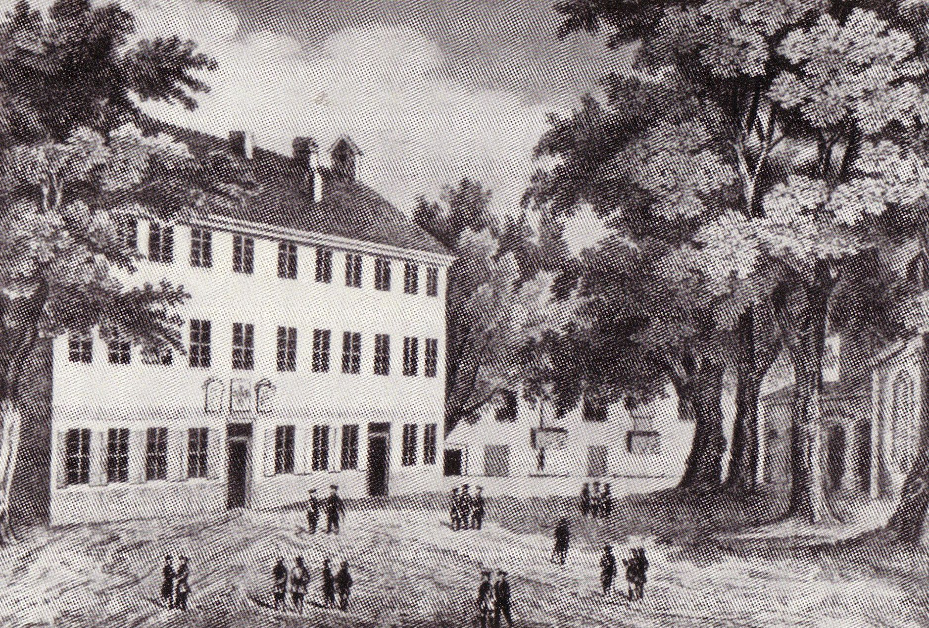 Drawing of the old university building in Königsberg